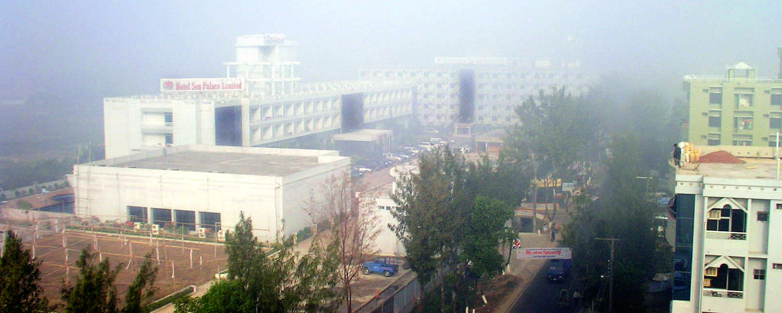 Hotel-Motel-Zone-Cox's-Bazar.